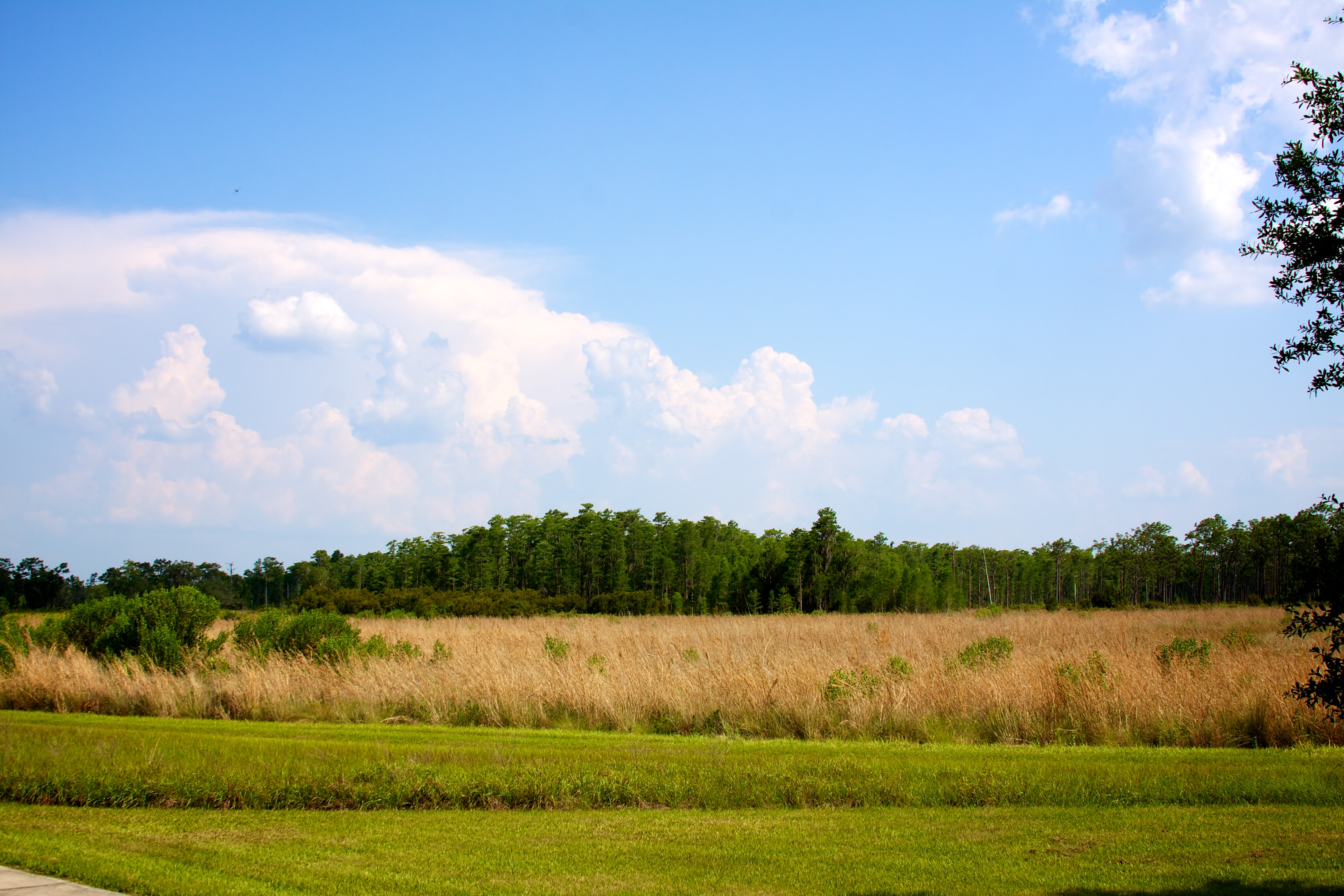 An example of habitat restoration at the Disney Wilderness Preserve Credit: Keenan Adams, USFWS